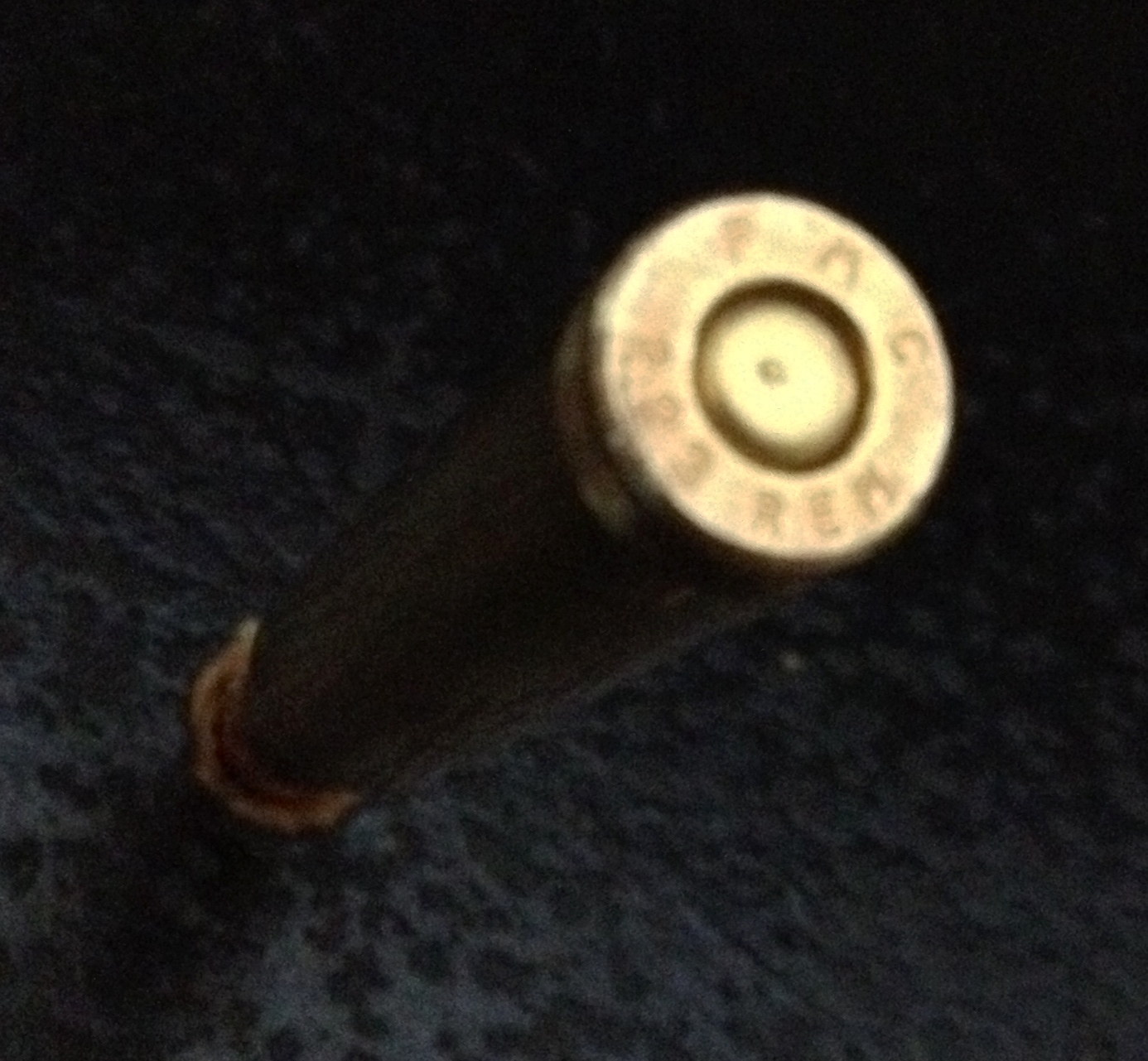 Light primer strike in an AR-15 type rifle after dropping the bolt with a loaded magazine inserted Light primer strike in an AR-15 type rifle. Own picture.